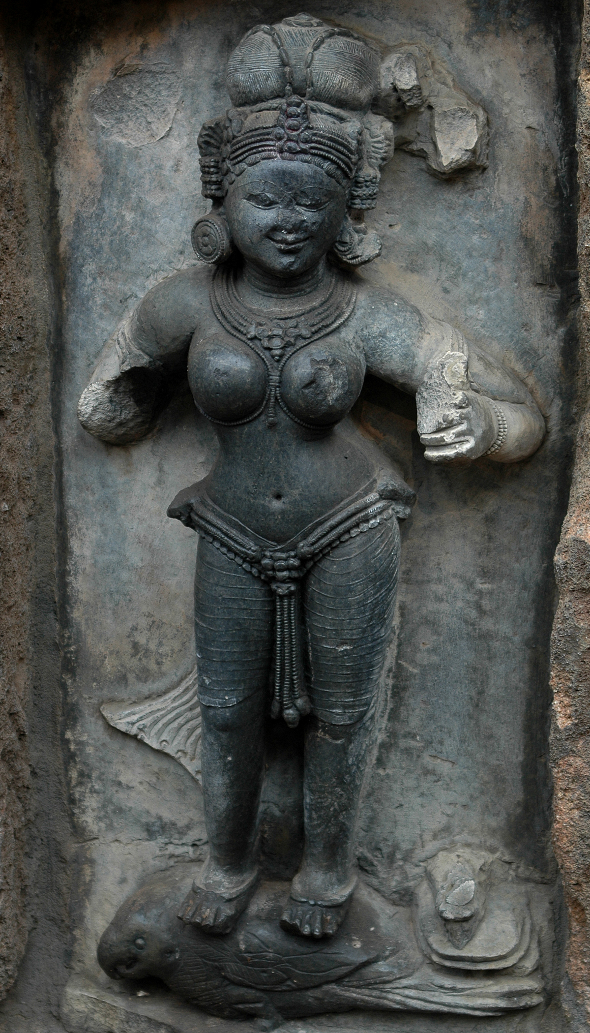 Chausath Yogini temple known as Mahamaya temple